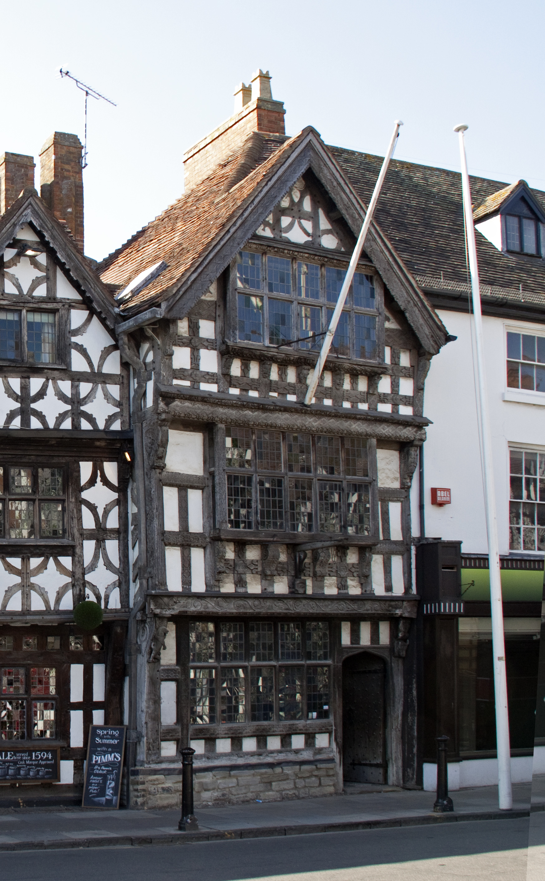 Harvard House, a grade 1 listed Tudor Timber-framed house. Built around 1596